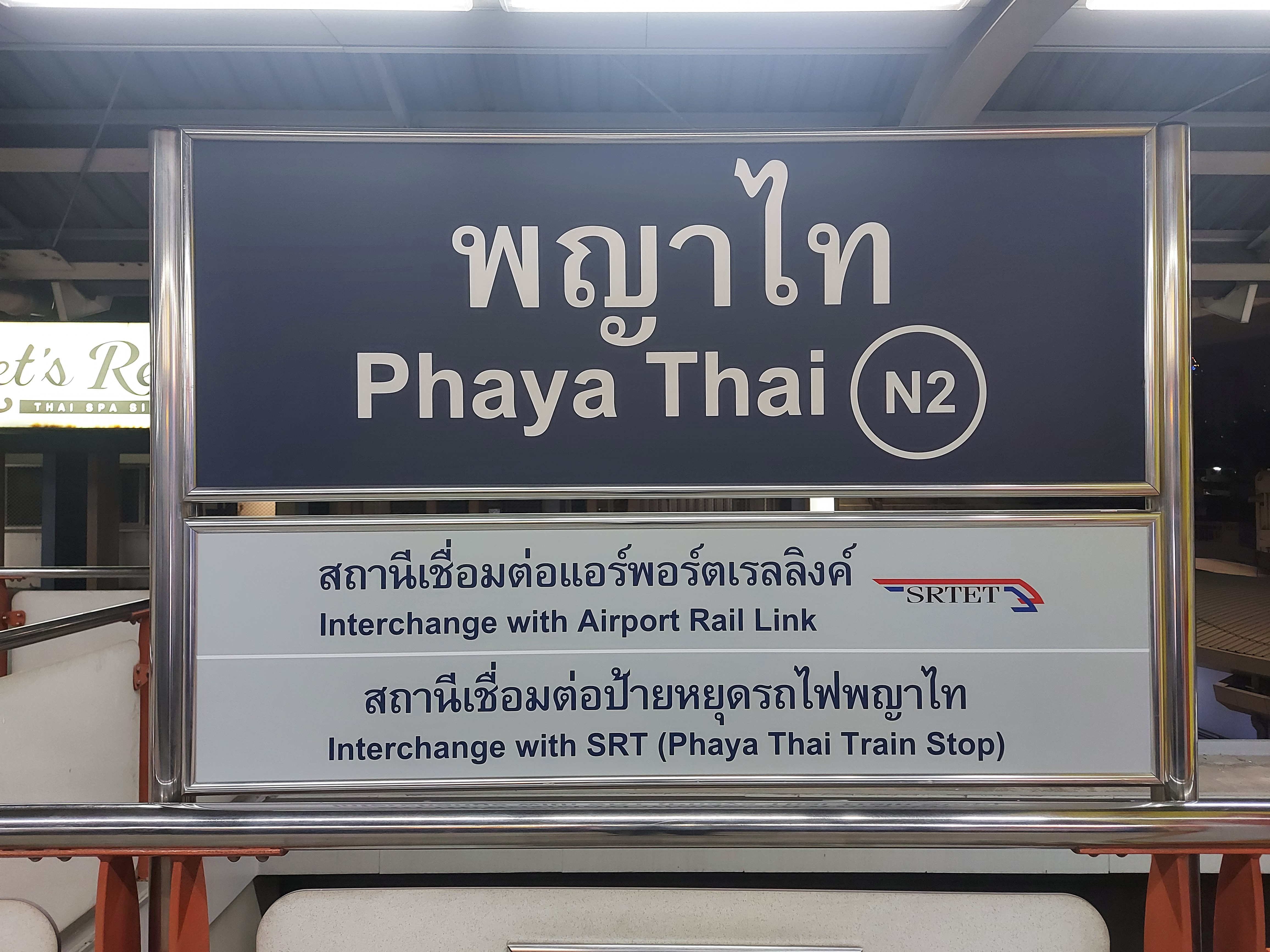 BTS Sky train, Phaya Thai Station. Interchange station for the Suvarnabhumi Airport Rail Link City Line